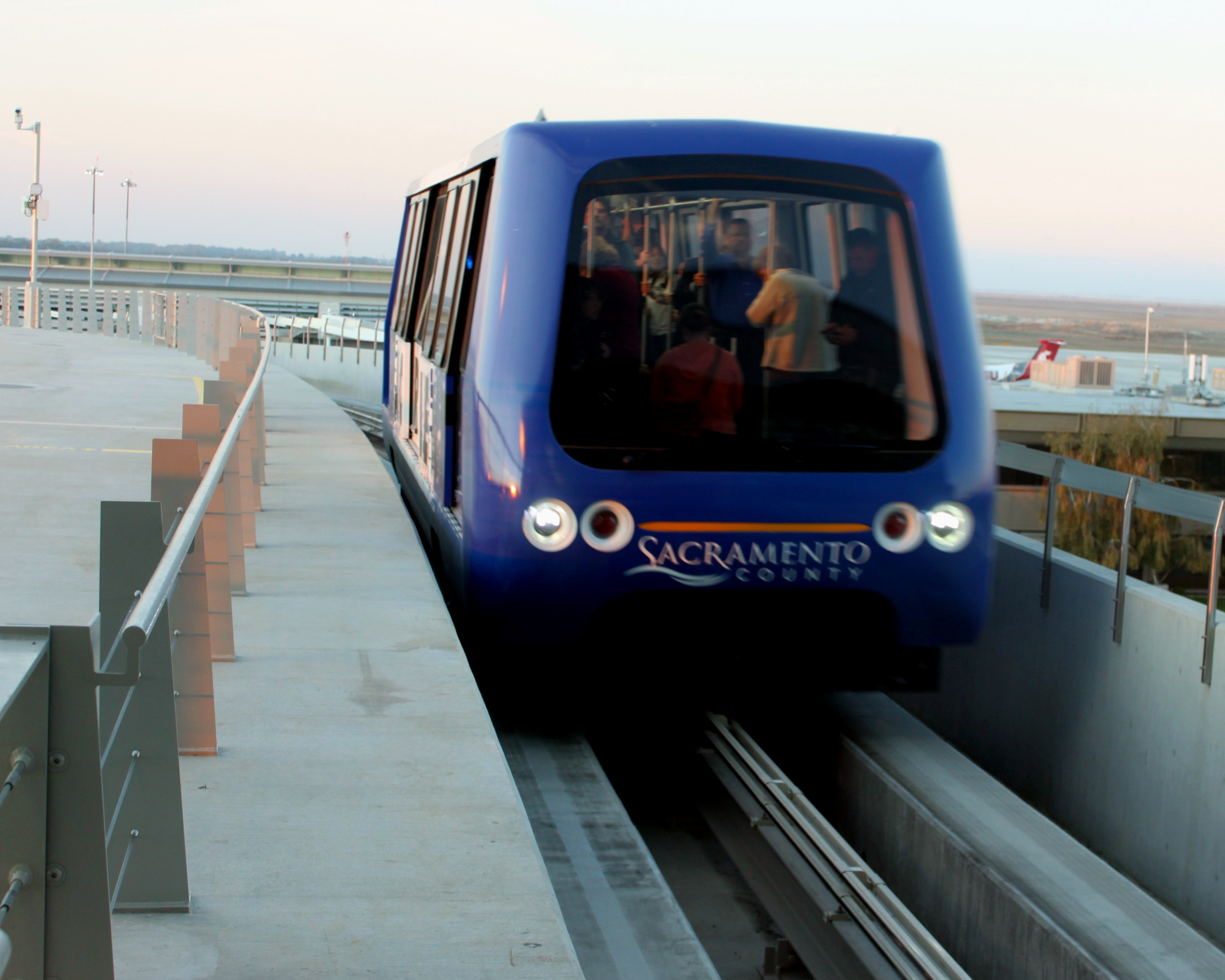 Sacramento Airport, California